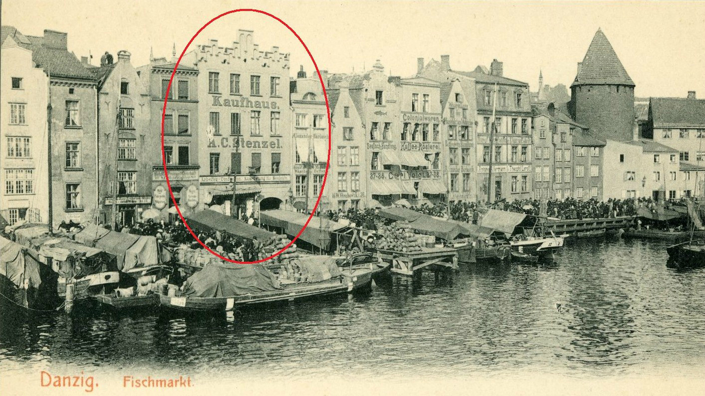 This postcard is from publisher Brück & Sohn in Meißen ( This postcard has a unique number 03616 and is available in a higher resolution at the publisher. This images was uploaded in a cooperation project between Wikipedians and the publisher.